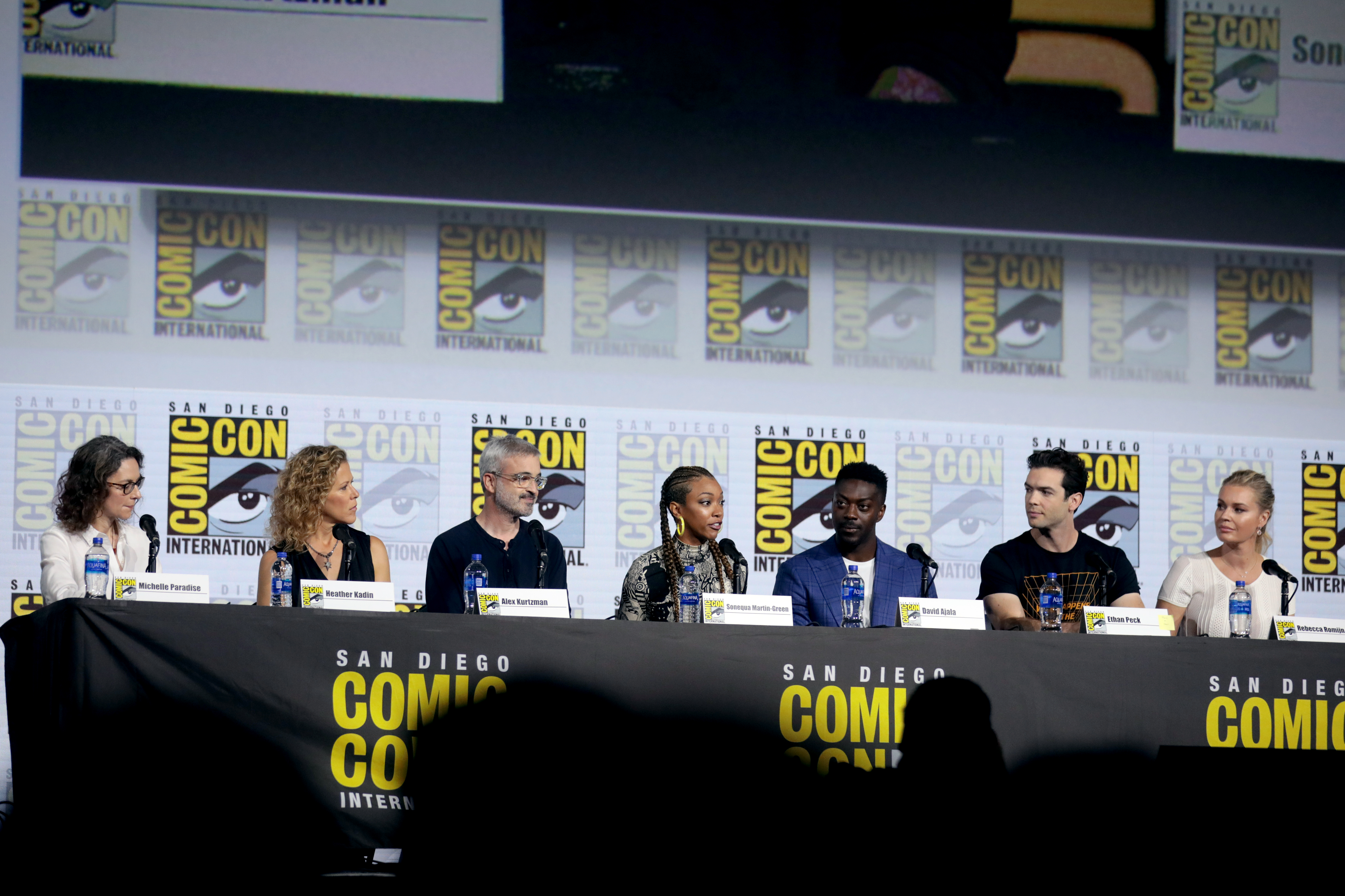 Michelle Paradise, Heather Kadin, Alex Kurtzman, Sonequa Martin-Green, David Ajala, Ethan Peck and Rebecca Romijn speaking at the 2019 San Diego Comic Con International, for "Star Trek: Discovery", at the San Diego Convention Center in San Diego, California.